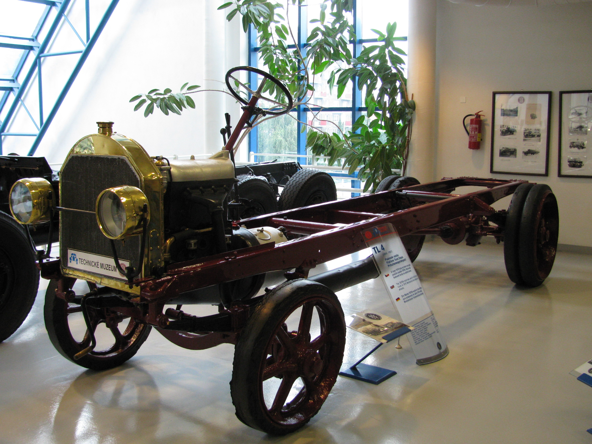 Structure of NW TL-4 lorry (later Tatra T50) in Tatra Technical Museum, Kopřivnice, Czech Republic.